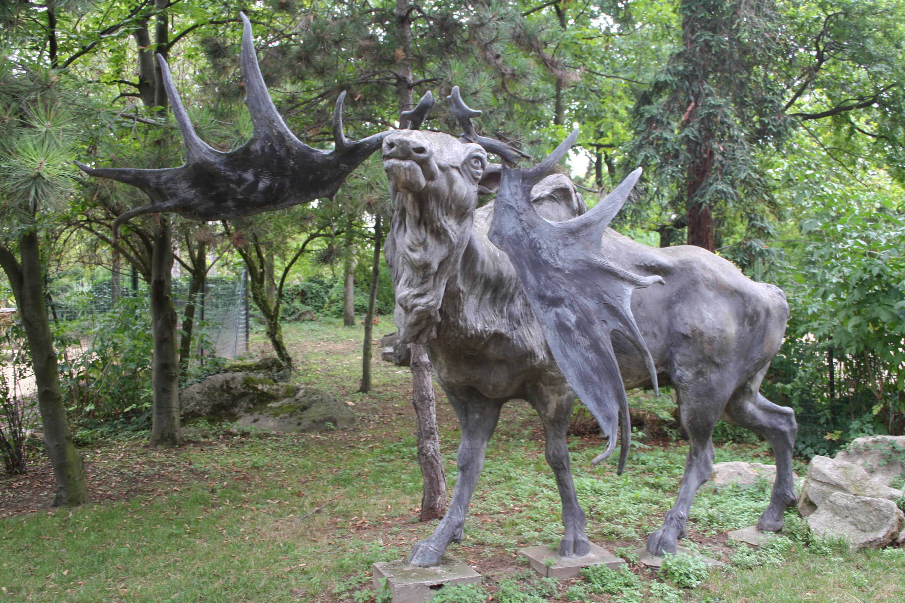 Vincennes zoological garden (Paris, France).